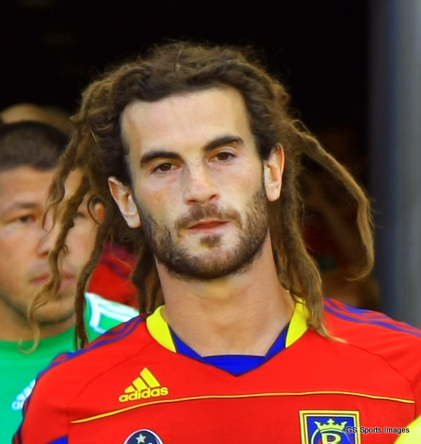 Kyle Beckerman, photo taken by Julie Harper